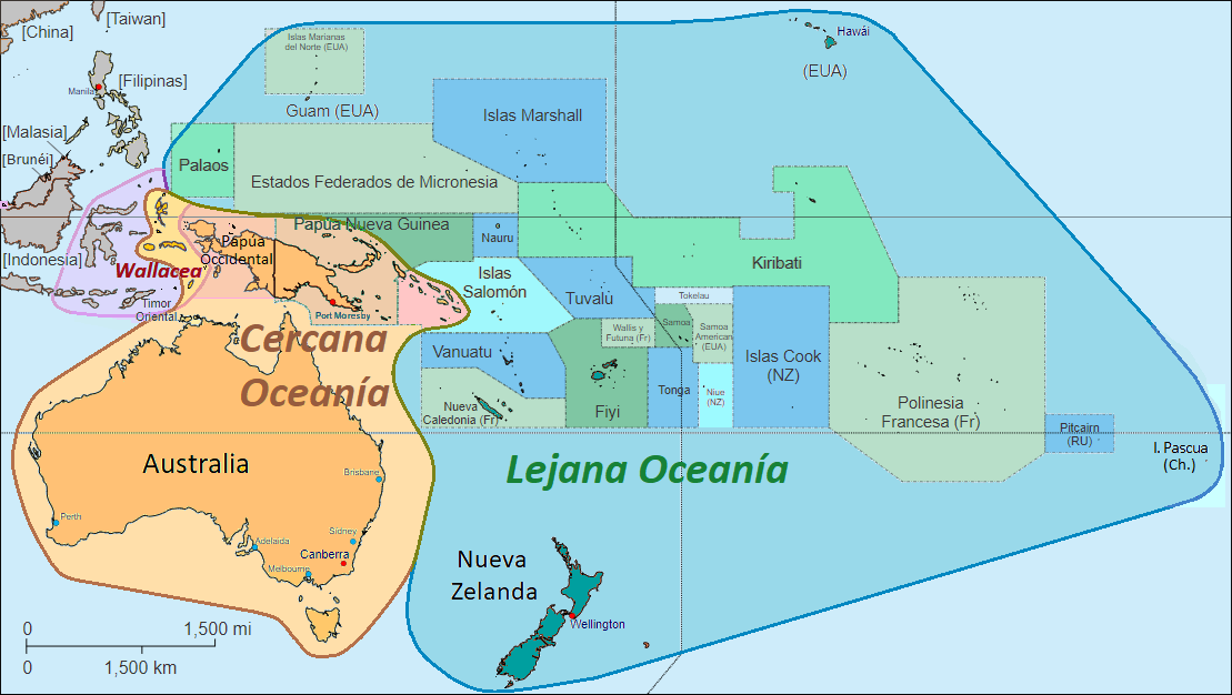 Biogeographic map of Oceania in Spanish.